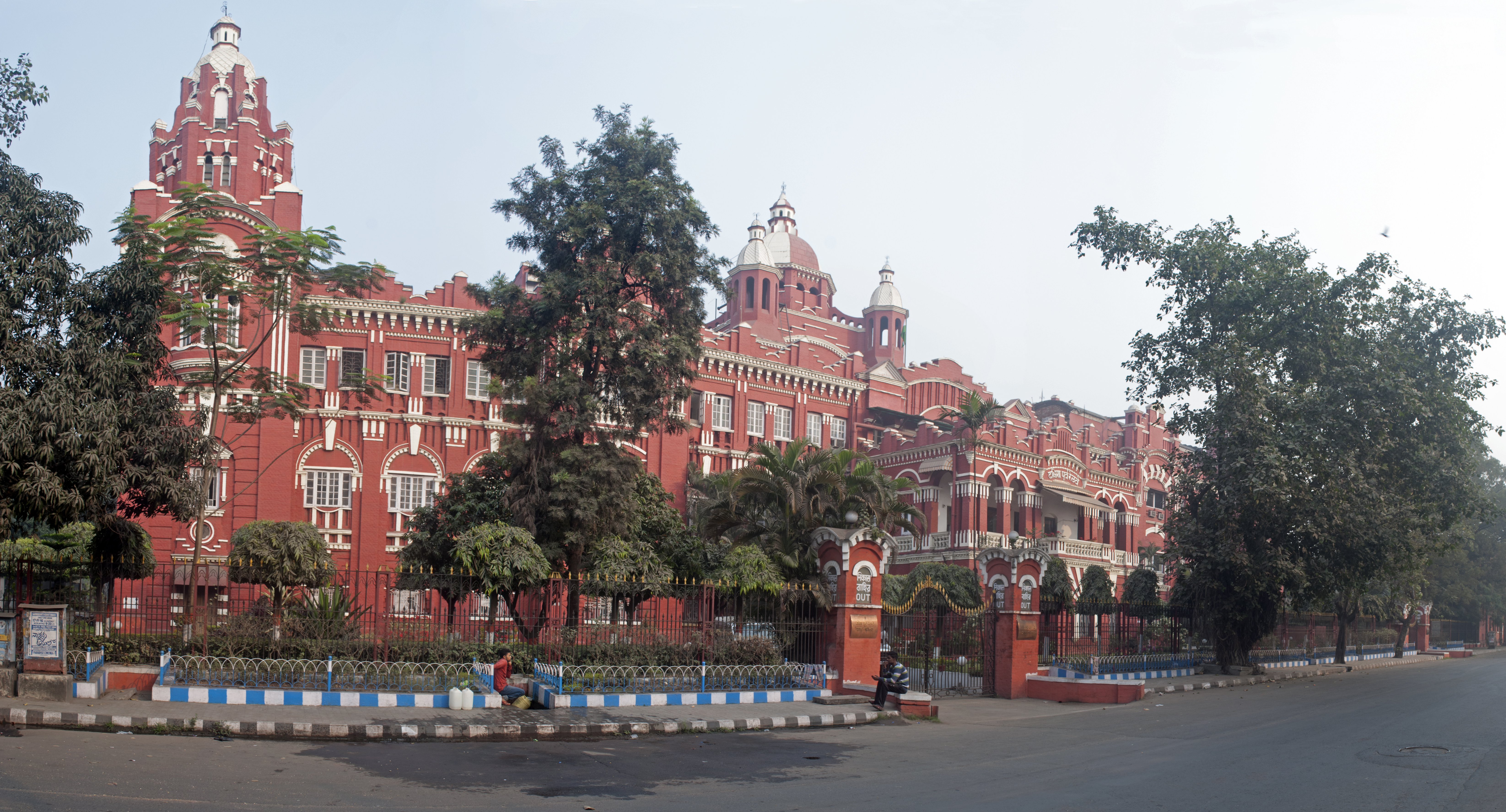 Bengal Nagpur Railway (BNR) or South Eastern Railway (SER) Office, Garden Reach